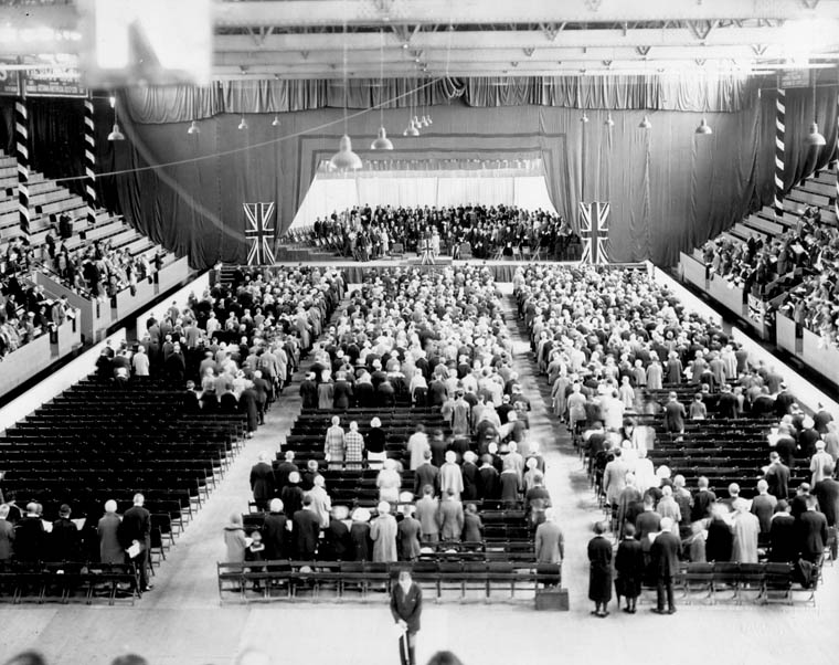 A July 1927 ceremony inside the Auditorium, on the 100th anniversary of the founding of Ottawa